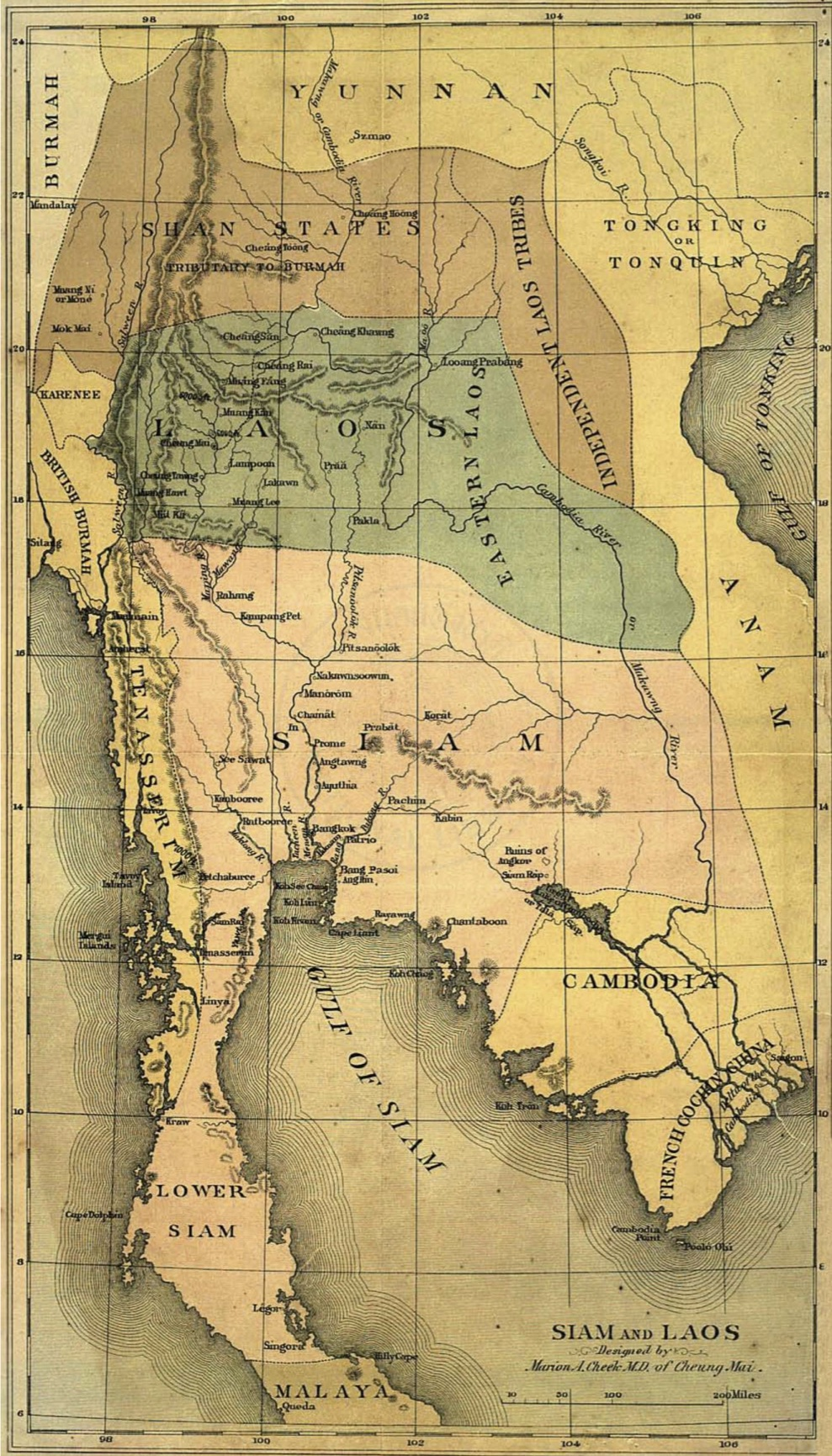 Map of Siam, Laos, Cambodia, and Shan States, designed by Marion A. Cheek, M.D. for the book "Siam and Laos As Seen By Our American Missionaries", published in 1884 by the Presbyterian Board of Education